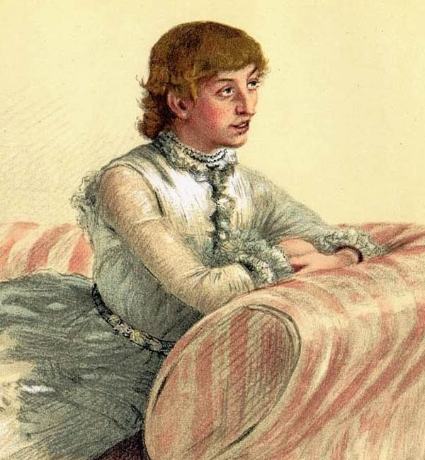 Lithograph in colours, portrait of Lady Florence Dixie (1857–1905), maiden name Lady Florence Douglas (DETAIL)